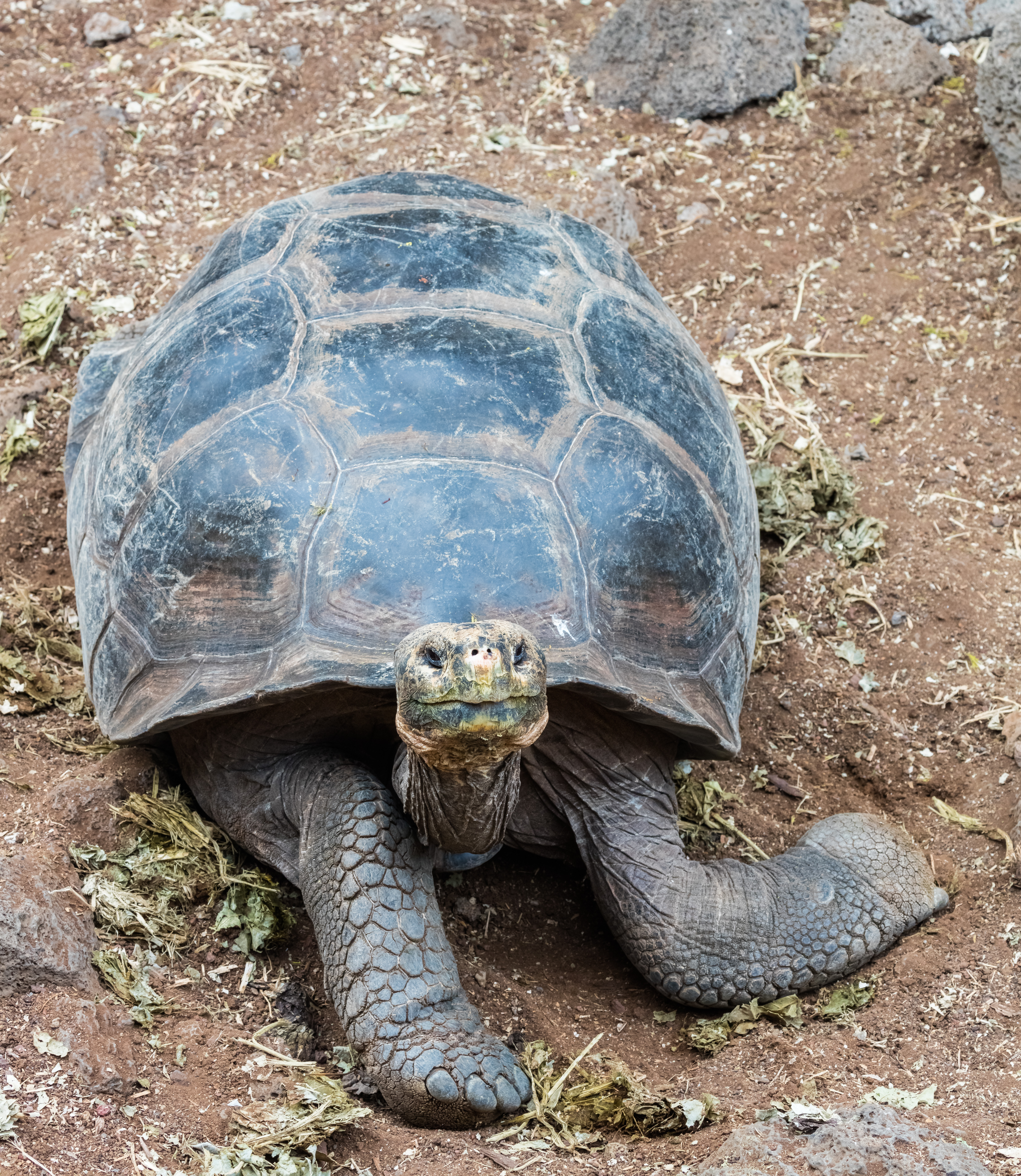 San Cristobal Island Galapagos tortoise (Chelonoidis chathamensis), Santa Cruz Island, Galapagos Islands, Ecuador